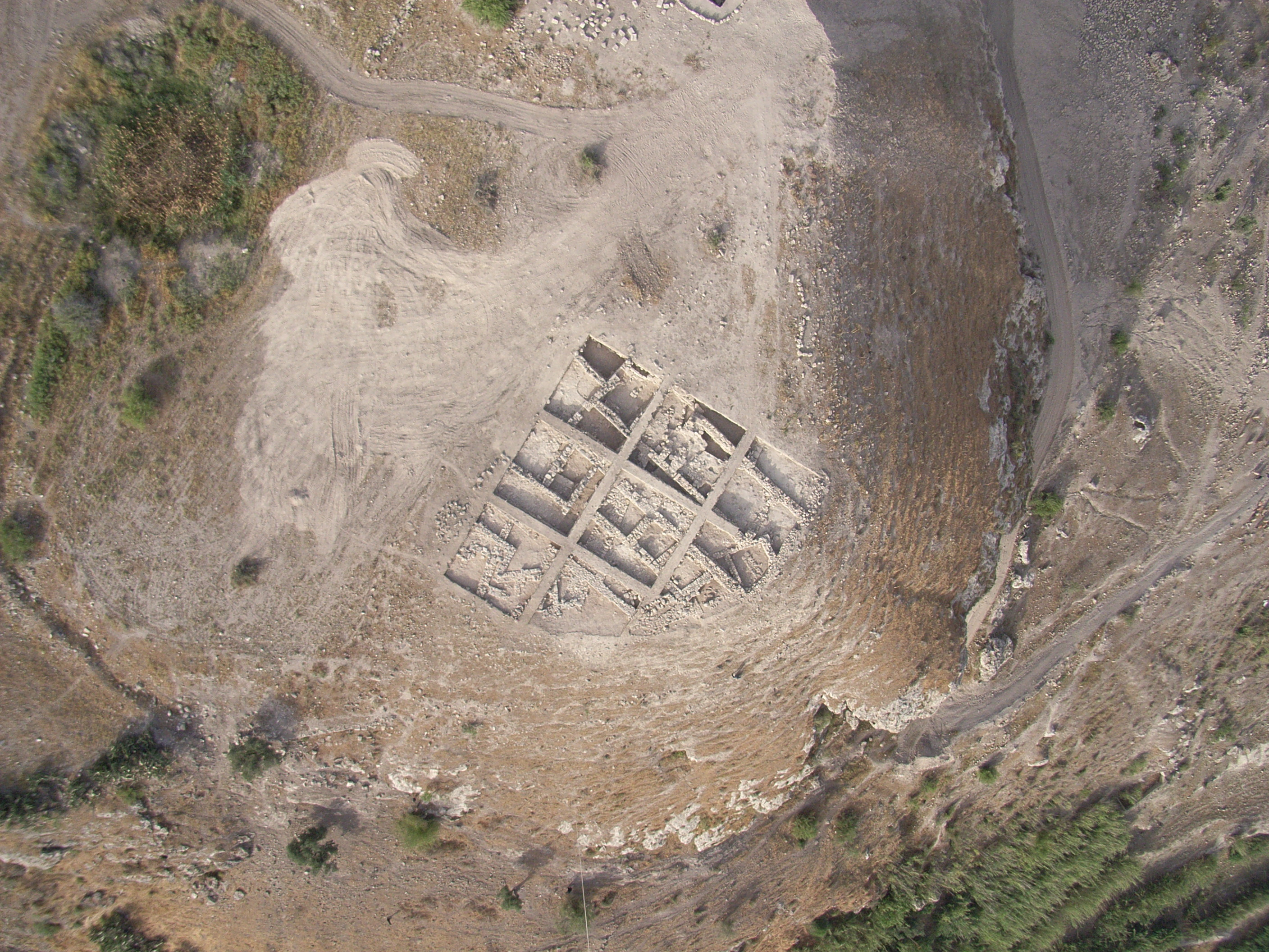 Areal II, Tall Ziraa, spring 2008